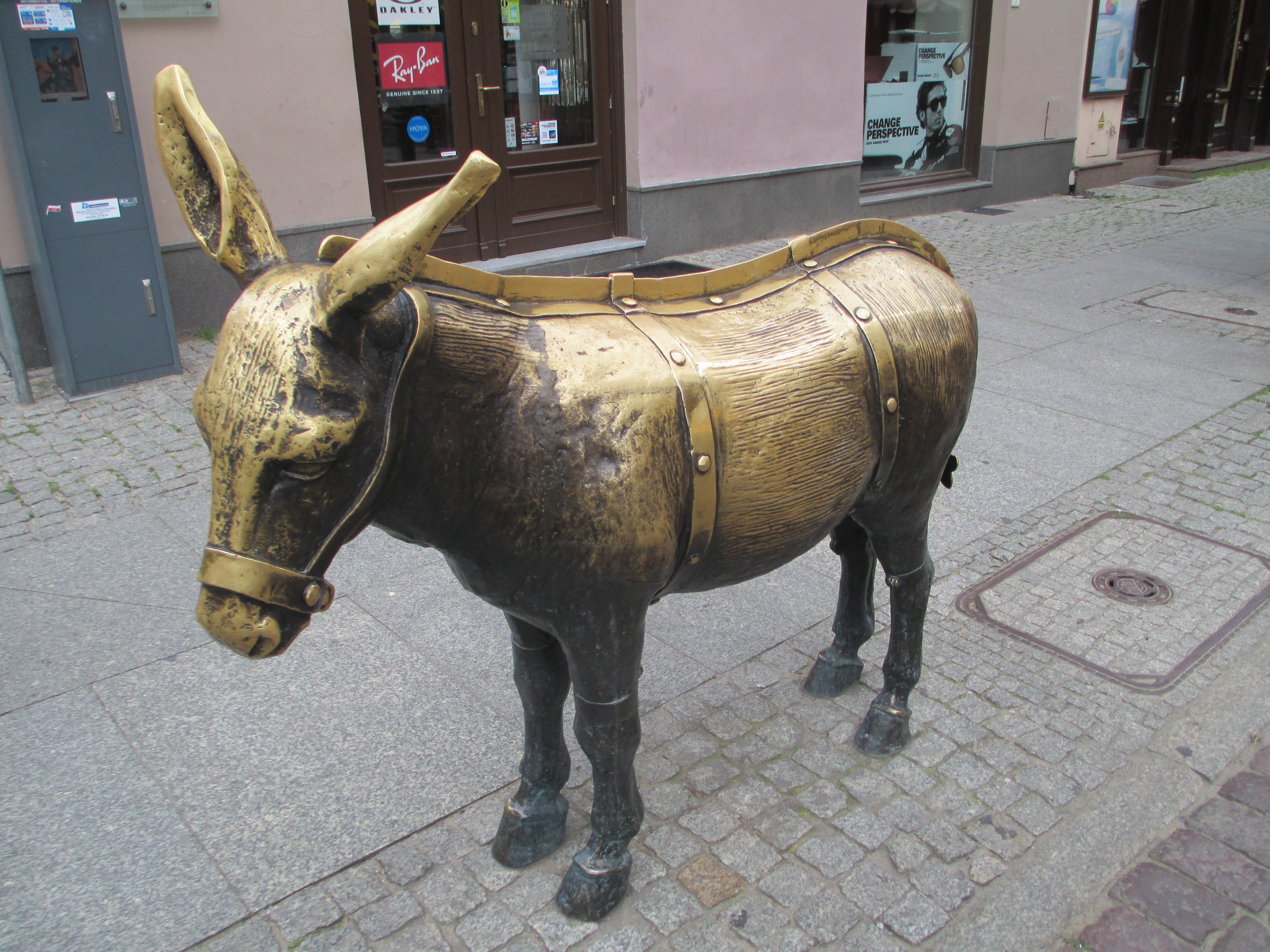 the torun donkey